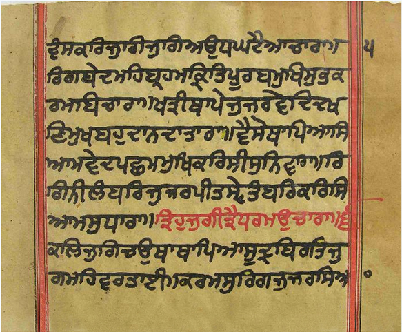 Varan Gyan Ratnavali, or Bhai Gurdas Ji Varan are a historical source of Sikh history, Sikh practices and Sikh beliefs written by Bhai Gurdas (1551 - 1636). This is likely a reproduction from between 1721 - 1890.